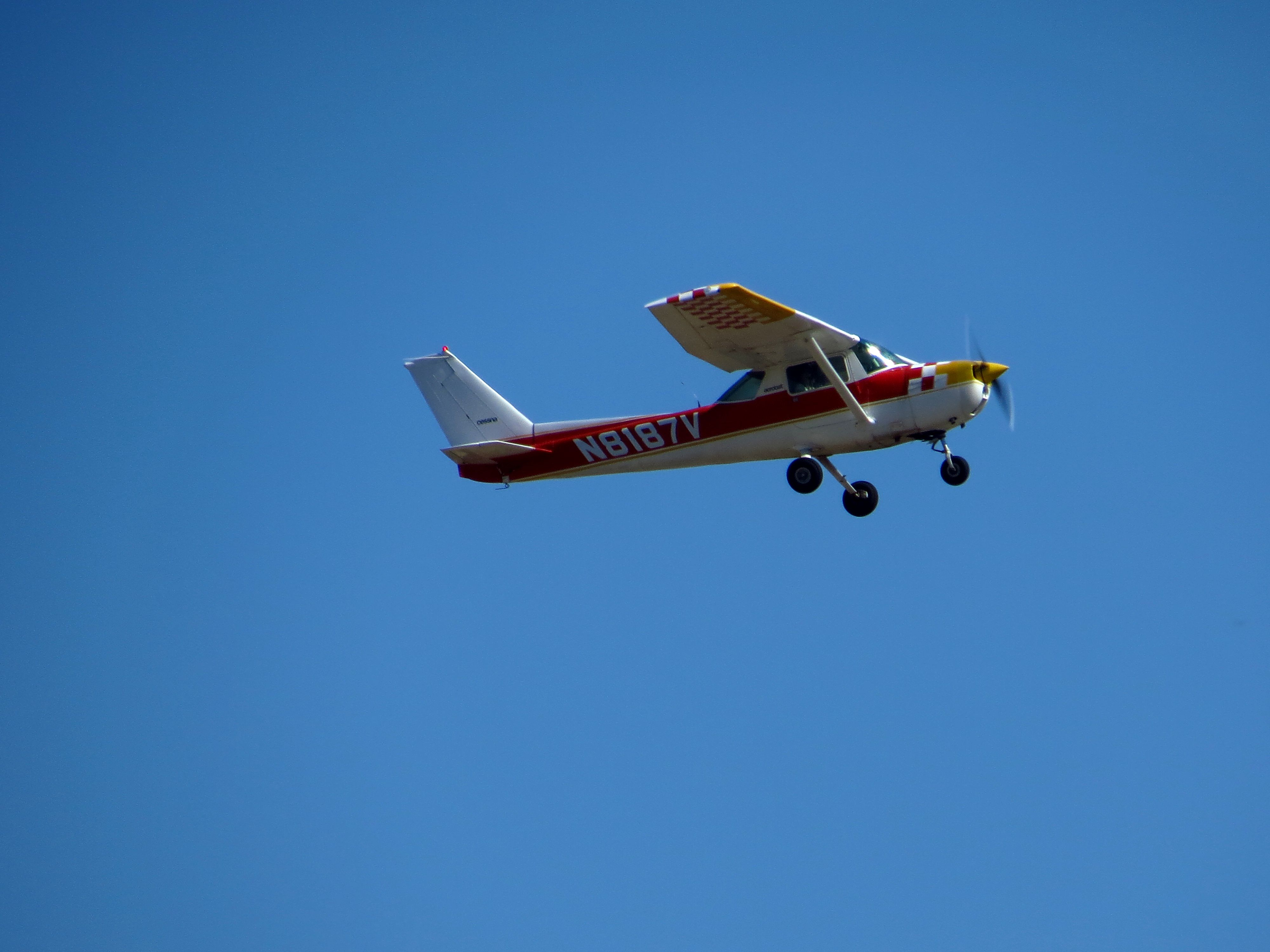 1974 Cessna A150M Aerobat C/N A1500559, N8187V at Billings Logan International Airport.